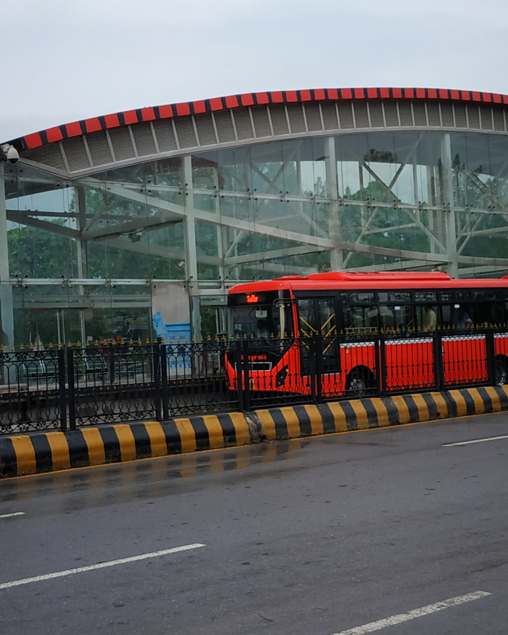 Islamabad-Rawalpindi Metrobus Blue Area Station. Photo by Ahabbscience Studio